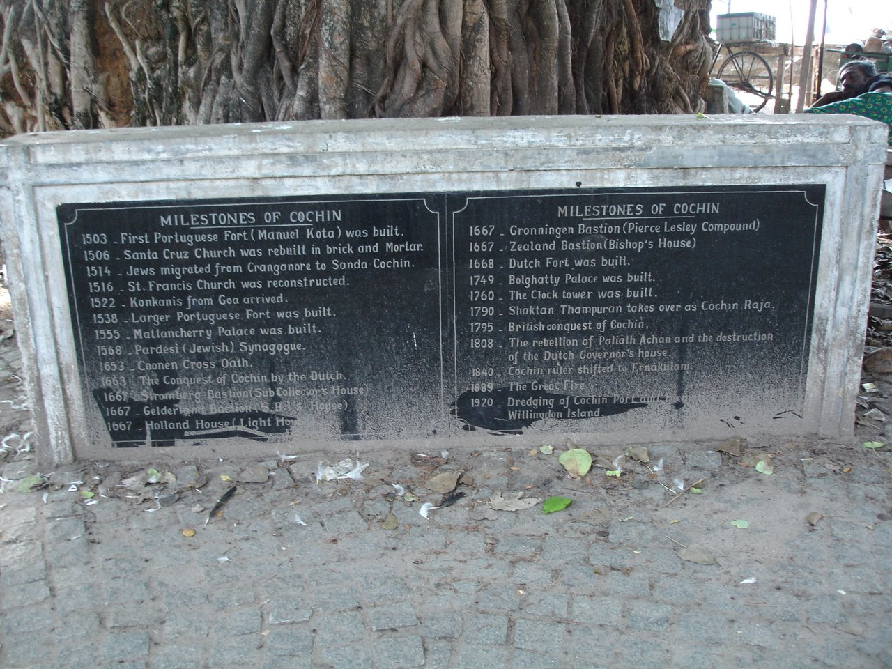 Milesstones of Kochi